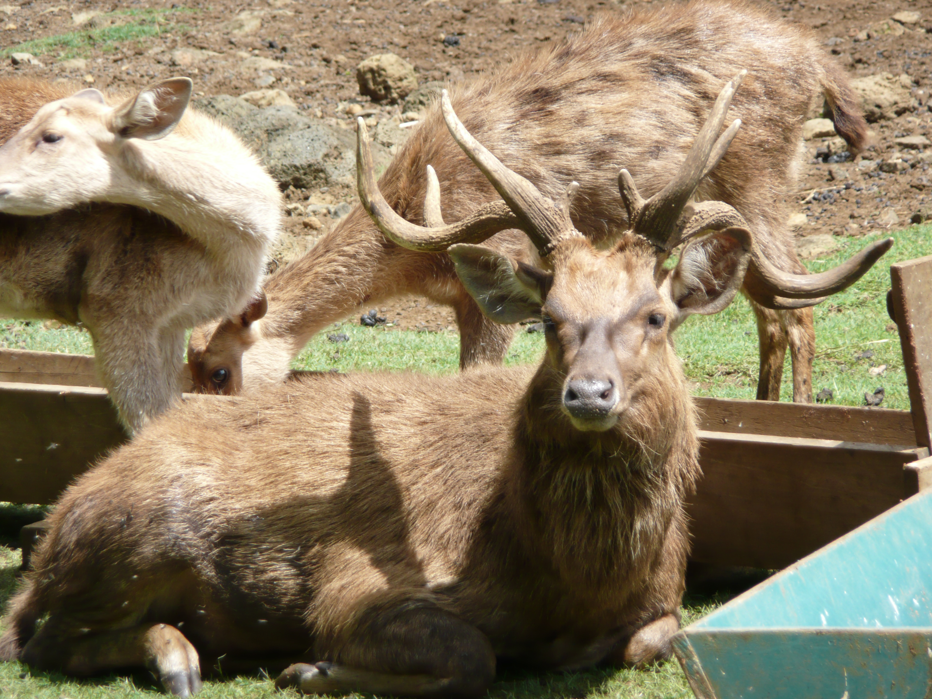 Cervus timorensis in Sir Seewoosagur Ramgoolam Botanical Garden Map: 20° 6' 25" S 57° 34' 46" E